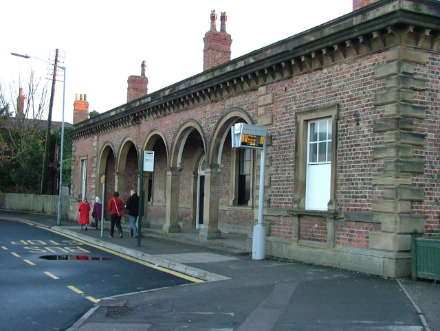 Pocklington Railway Station, Pocklington, East Riding of Yorkshire, England.The original entrance to the railway station in Pocklington. The building was designed by GT Andrews and the arches were a feature he employed on many of his buildings. The station was served by the former York - Beverley line and following closure was acquired by Pocklington School who have used it as a sports hall.